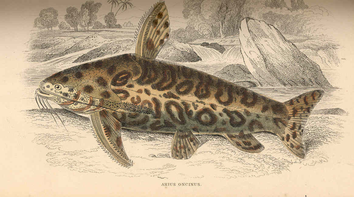 Arius oncinus Subject: Arius (Fish) Tag: Fish